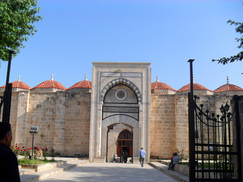 Ulucami (grand mosque) in Tarsus, Mersin Province